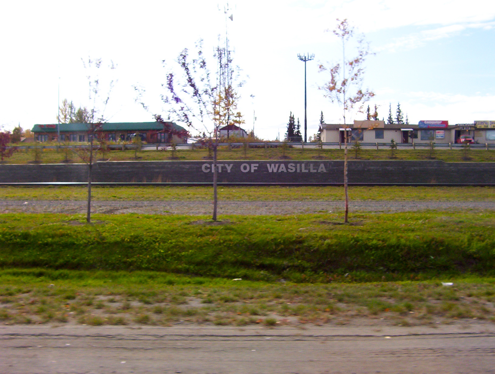 "City of Wasilla" sign Category:Images of Alaska